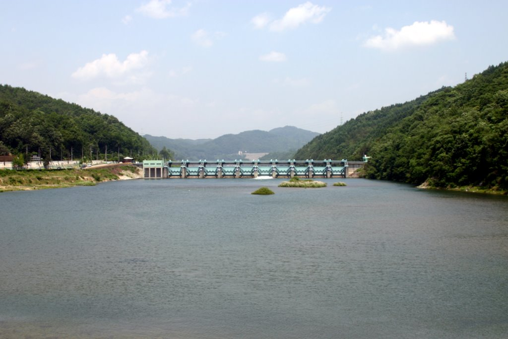 "The 5th Women Folk Plays for Dano Festival" held in a yard of the Andong Folk Museum in Andong City, Gyeongsangbuk-do, South Korea on June 11, 2007.